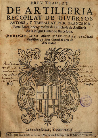 Frontpage of Breu Tractat d'Artilleria (1642) by Francesc Barra (17th century)